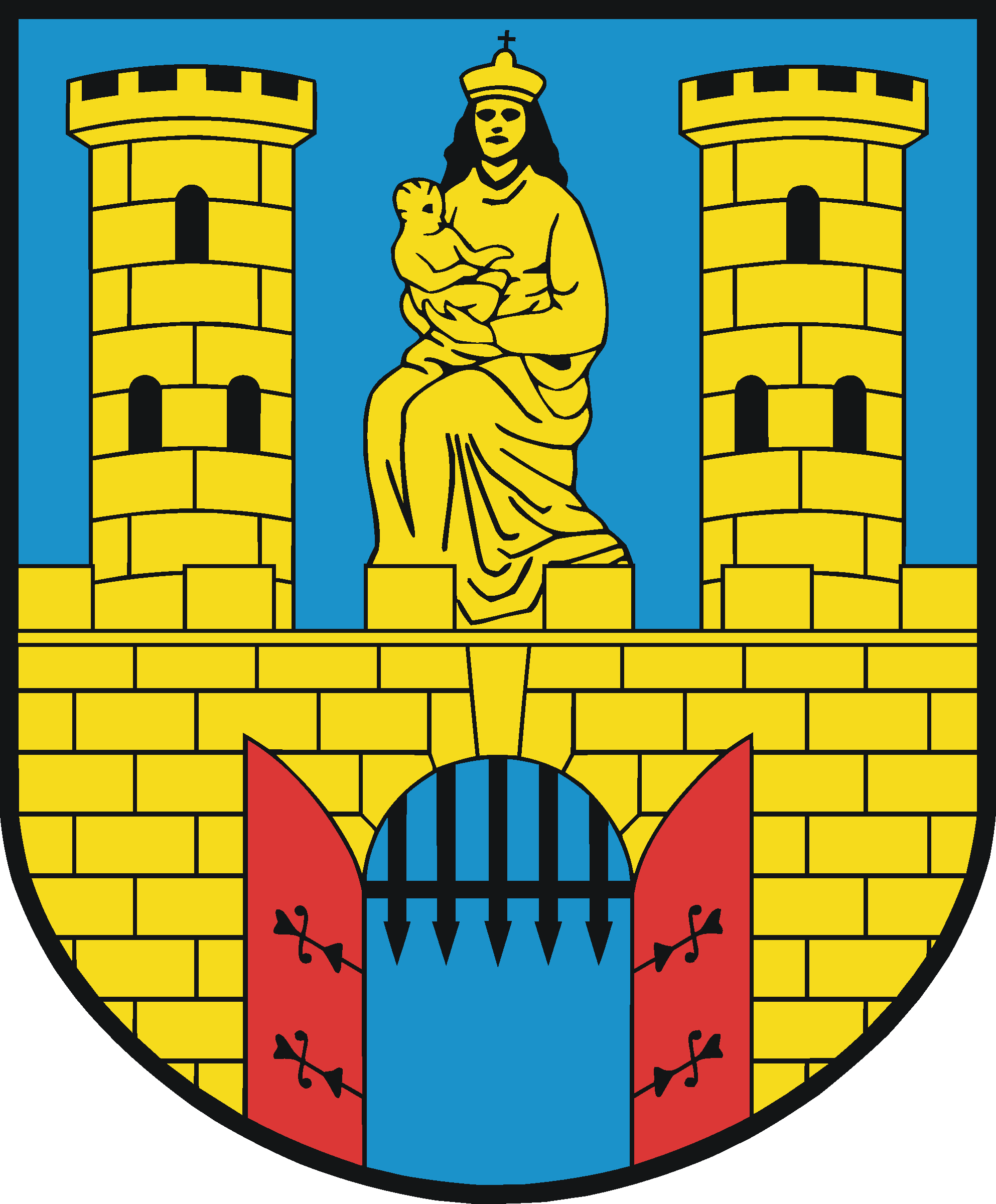 Coat of Arms of Burg